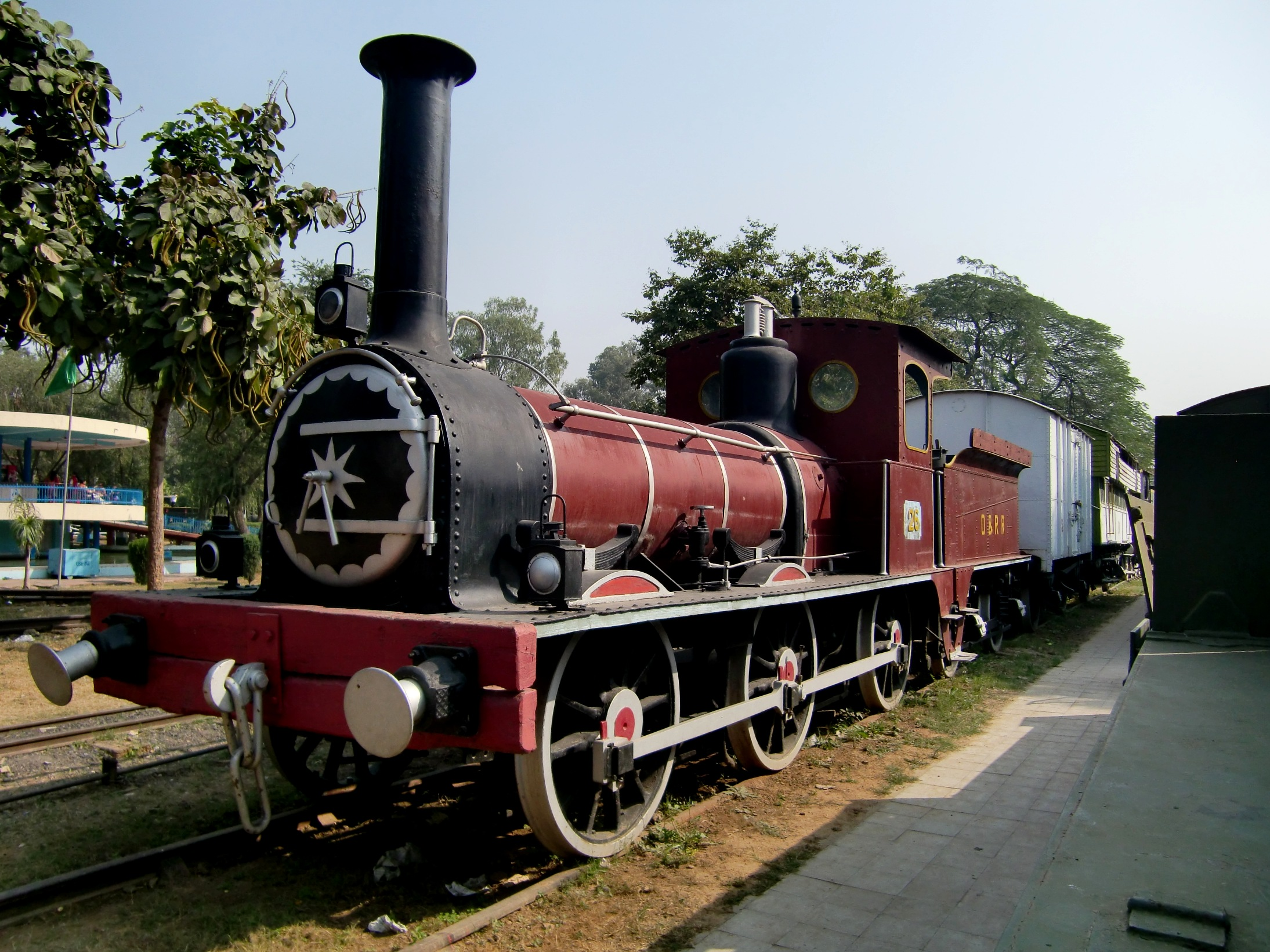 Oudh & Rohilkhand Railway locomotive B-26, built by Sharp, Stewart & Co. (2018 of 1870), inside cylinder type, National Railway Museum of Indian, New Dehli